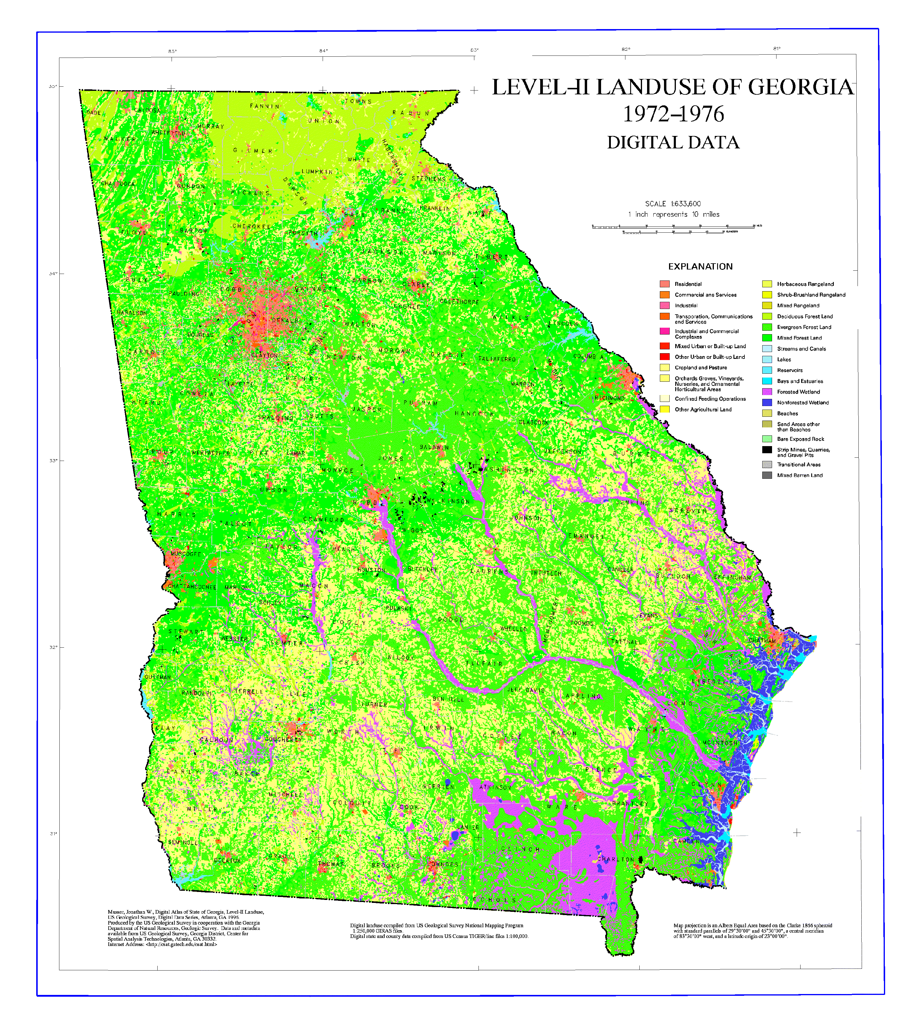 Map showing historical land use in Georgia (1972-1976).